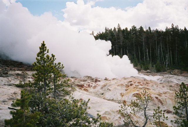 Steamboat Geyser, Yellowstone National Park. Image taken on 5/24/05, one day after a major steam eruption. The geyser has a history of emitting large volumes of steam for one to two days after major eruptions